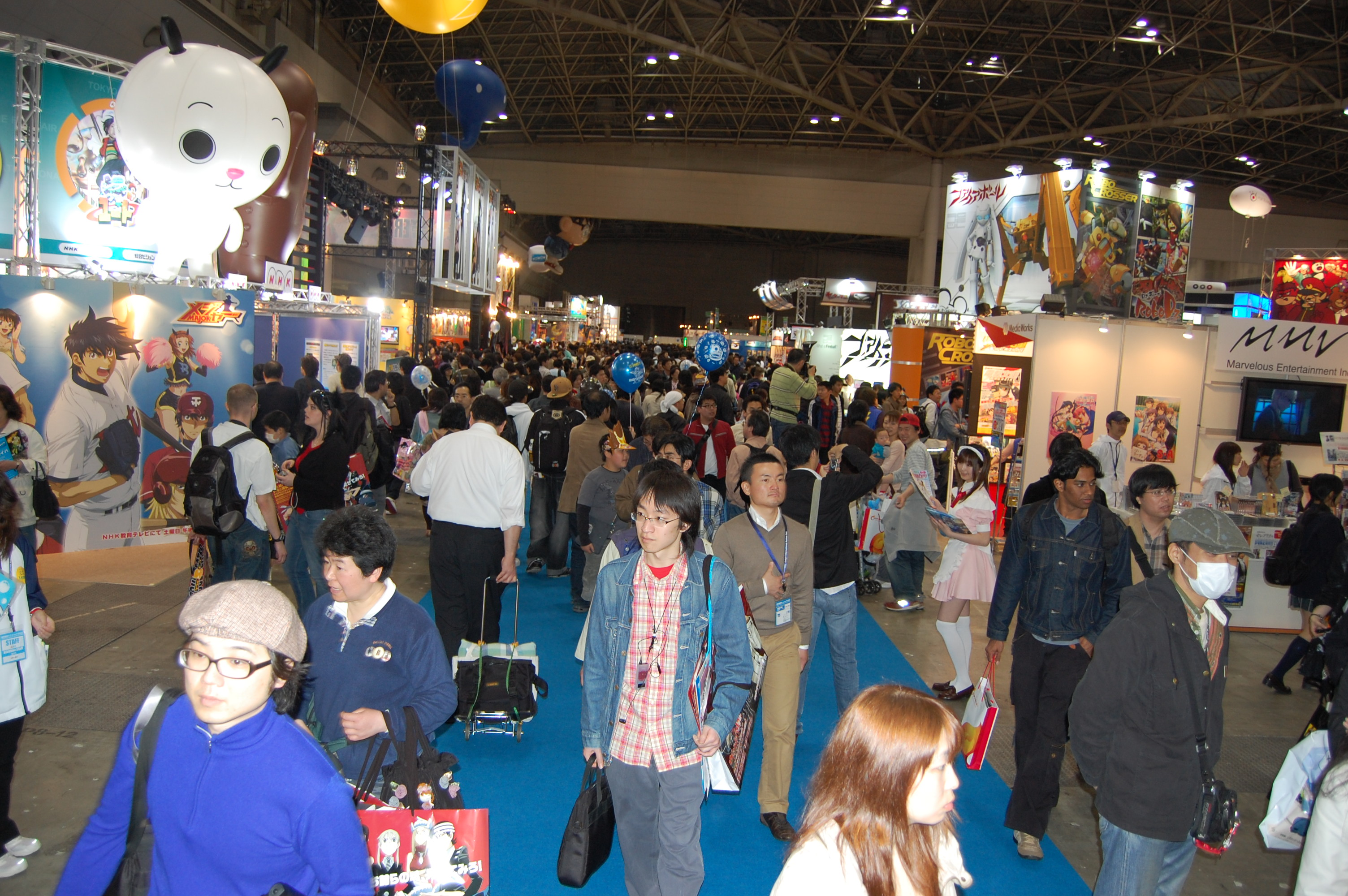 Exhibition hall 3 of the Tokyo International Anime Fair 2008